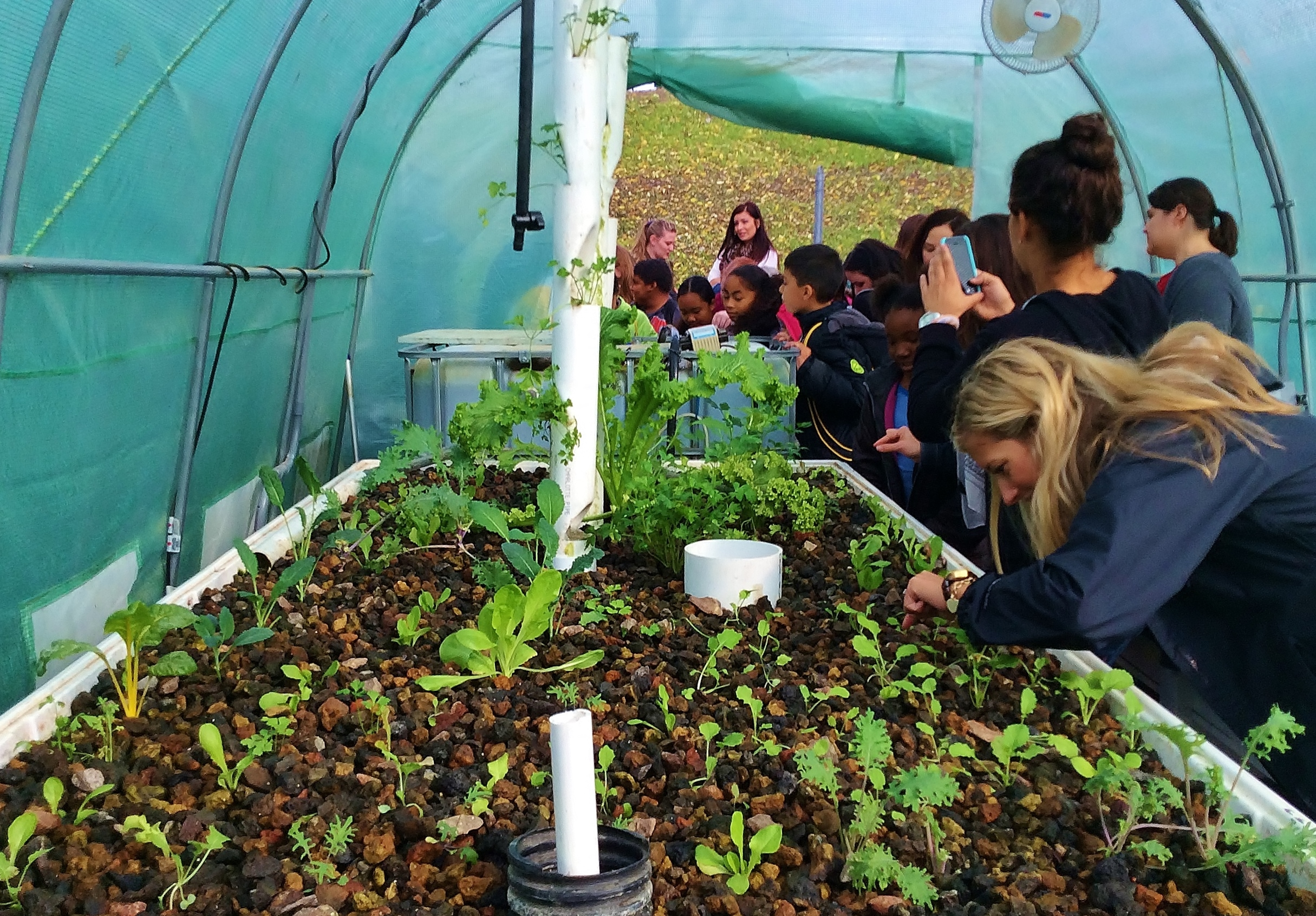 Youth tours led by faculty and students at the STORC